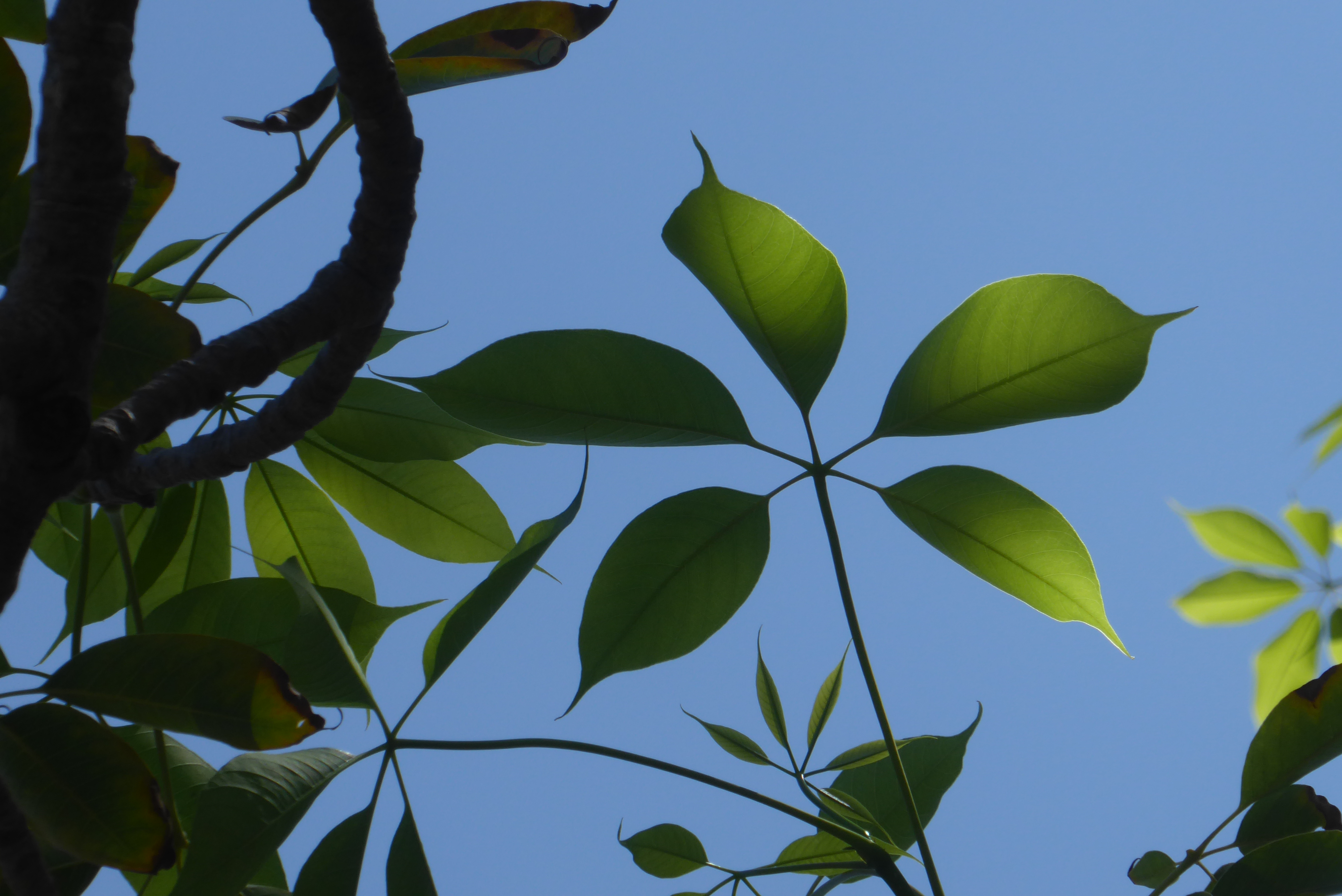 Edith Wolfson Park